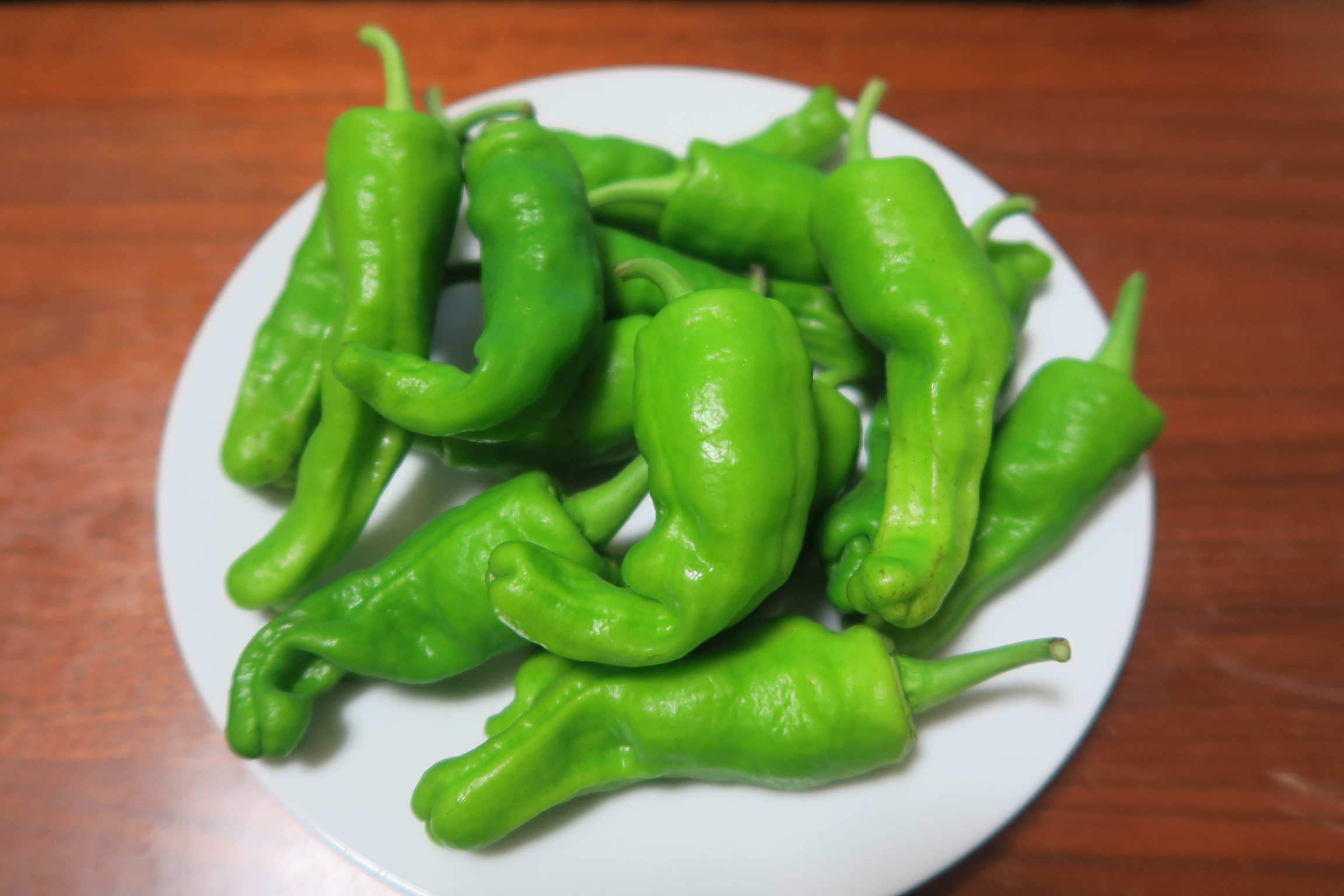 Sugitani pepper collected in Kōnan, Kōka, Shiga, Japan